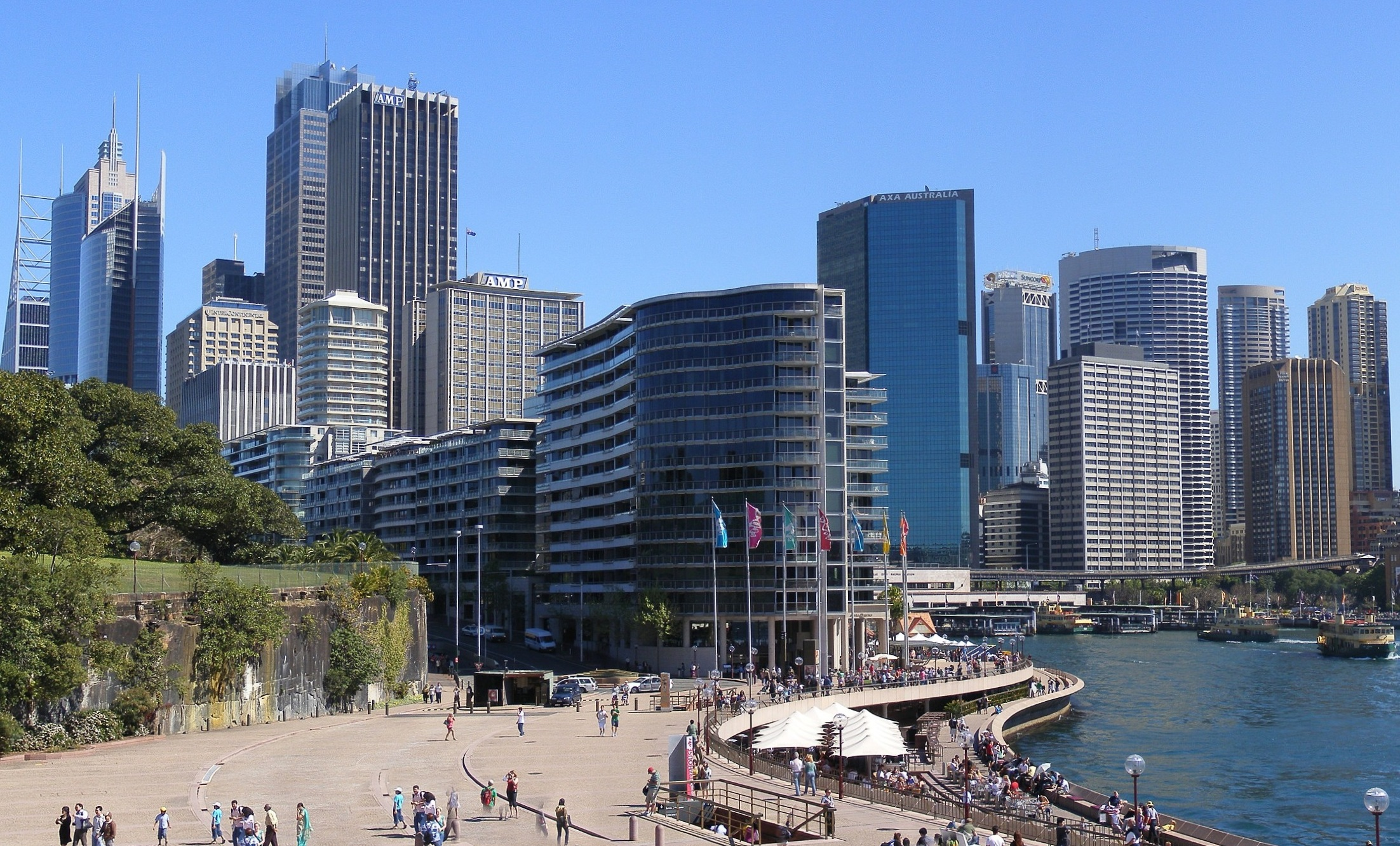 City of Sydney From the Opera House